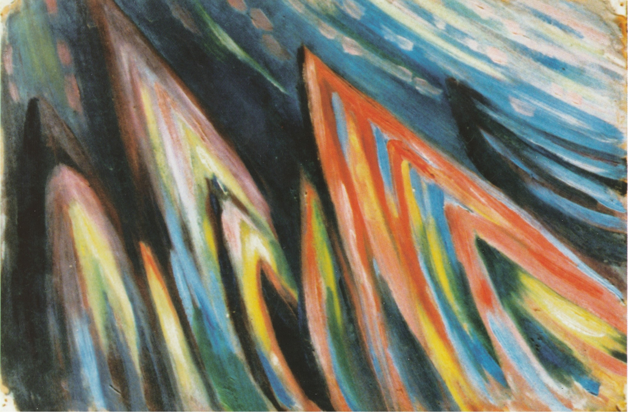 Painting "Form of waves" oil on canvas